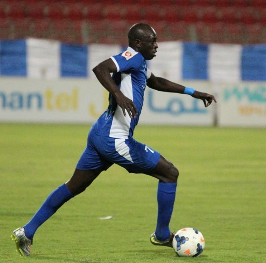 Mohamed Ablaye Gaye in a match against Sur Club. 28 February 2015 Al Saada Stadium, Salalah Photographer email id